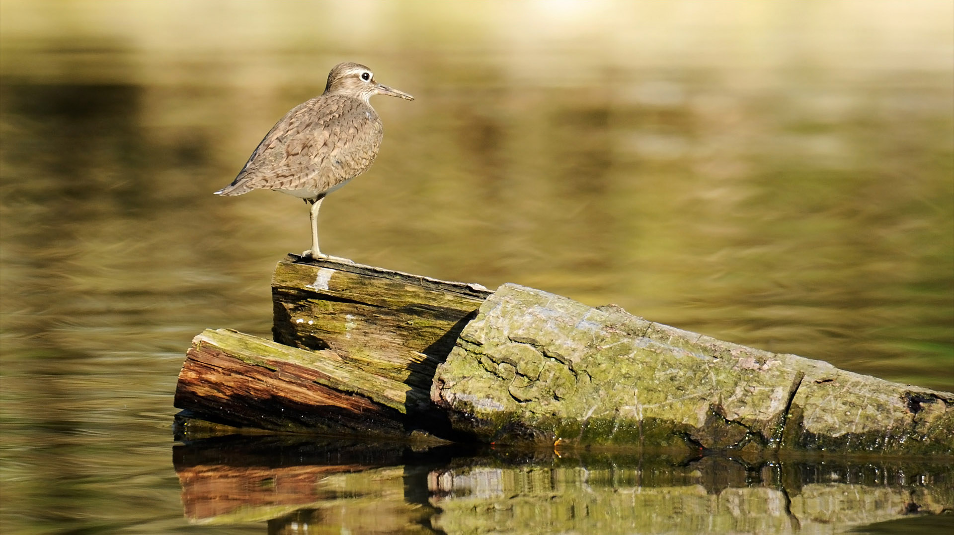 A Common Sandpiper (Actitis hypoleucos)